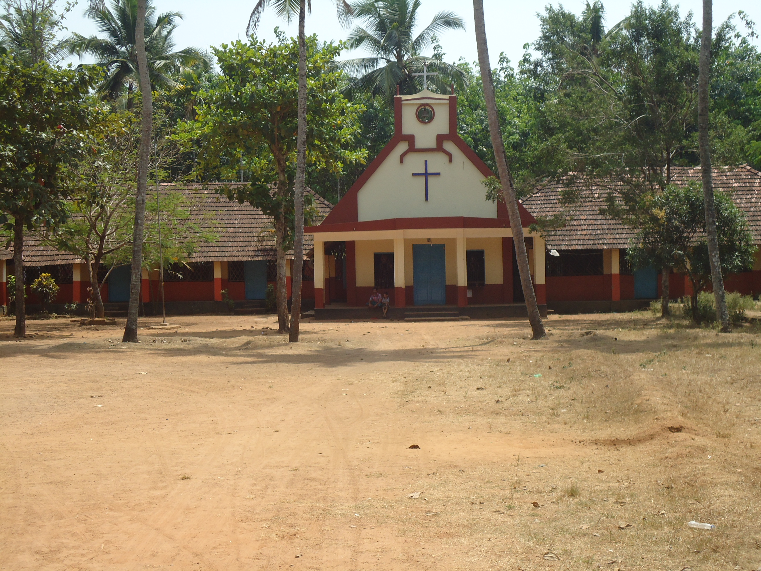 St Marys Lower Primary School Thuravoor